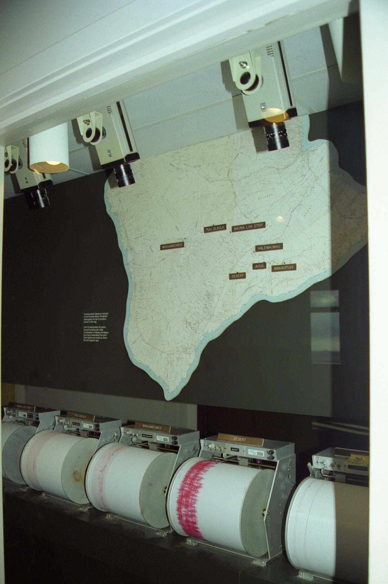 Seismographs in the Hawaii Volcanoes National Park Visitor Centre, Kilauea, Hawaii, United States